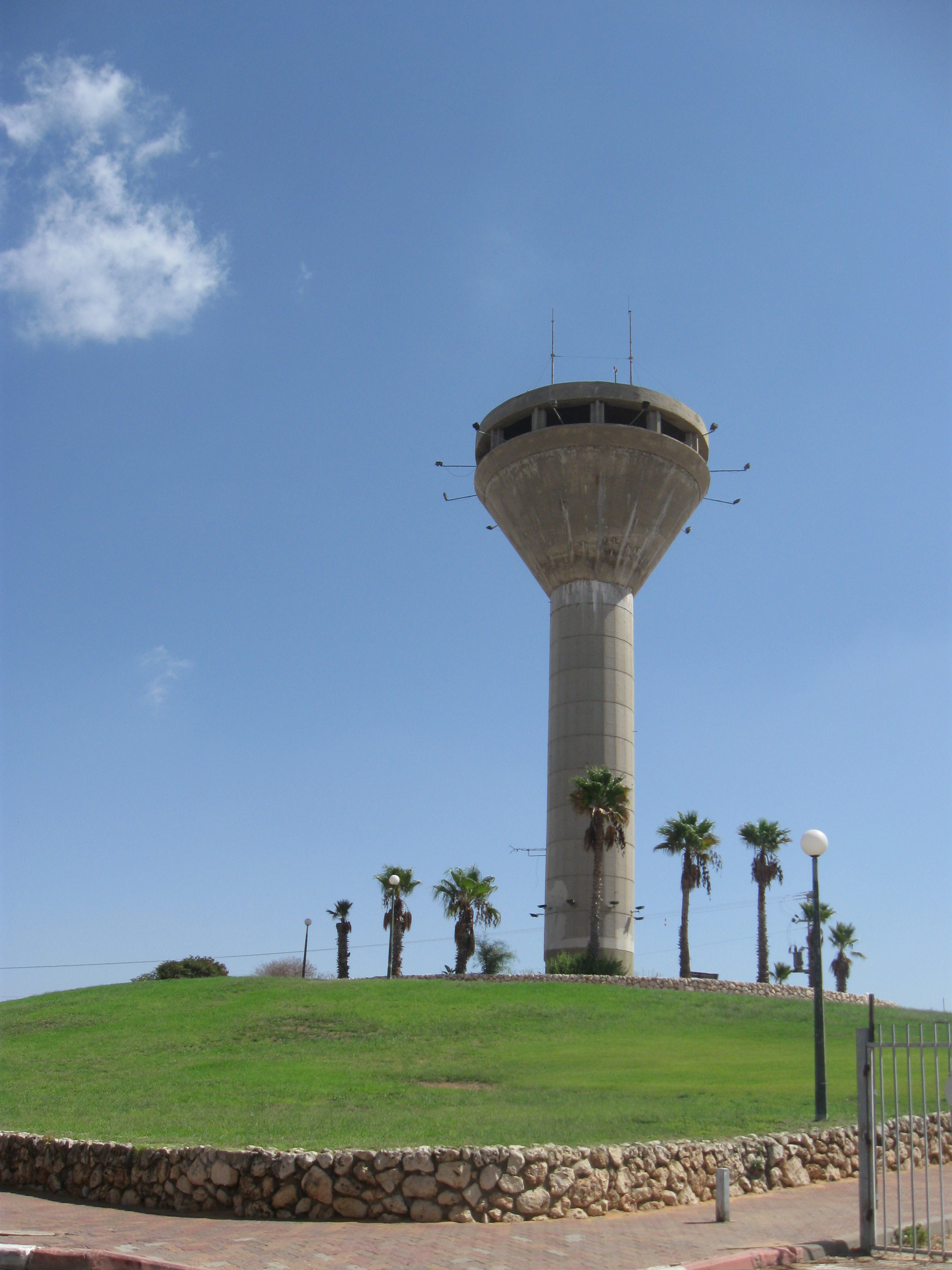 migdal yavne